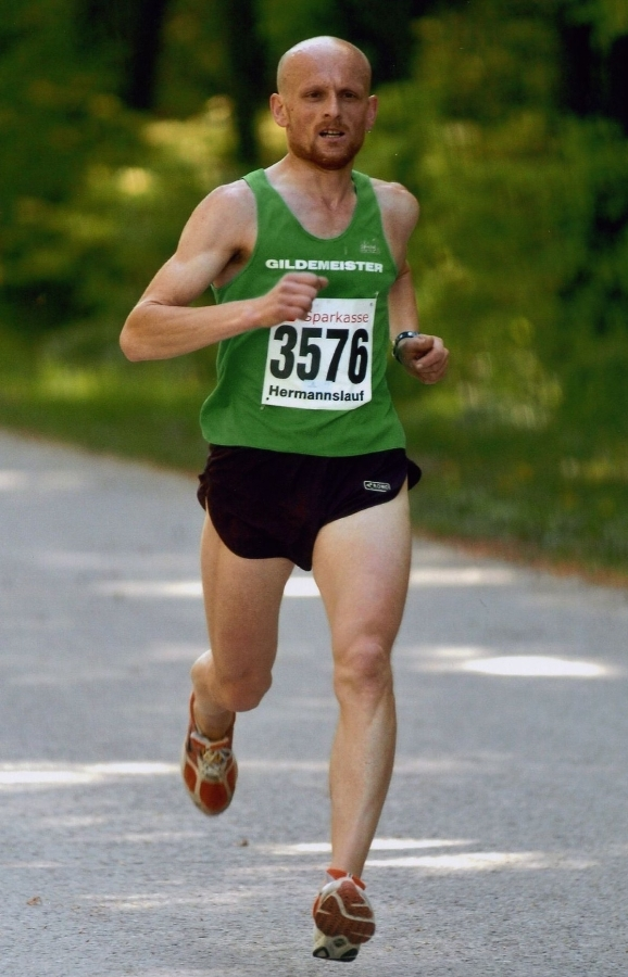 Jürgen Wieser on the Run Hermannslauf